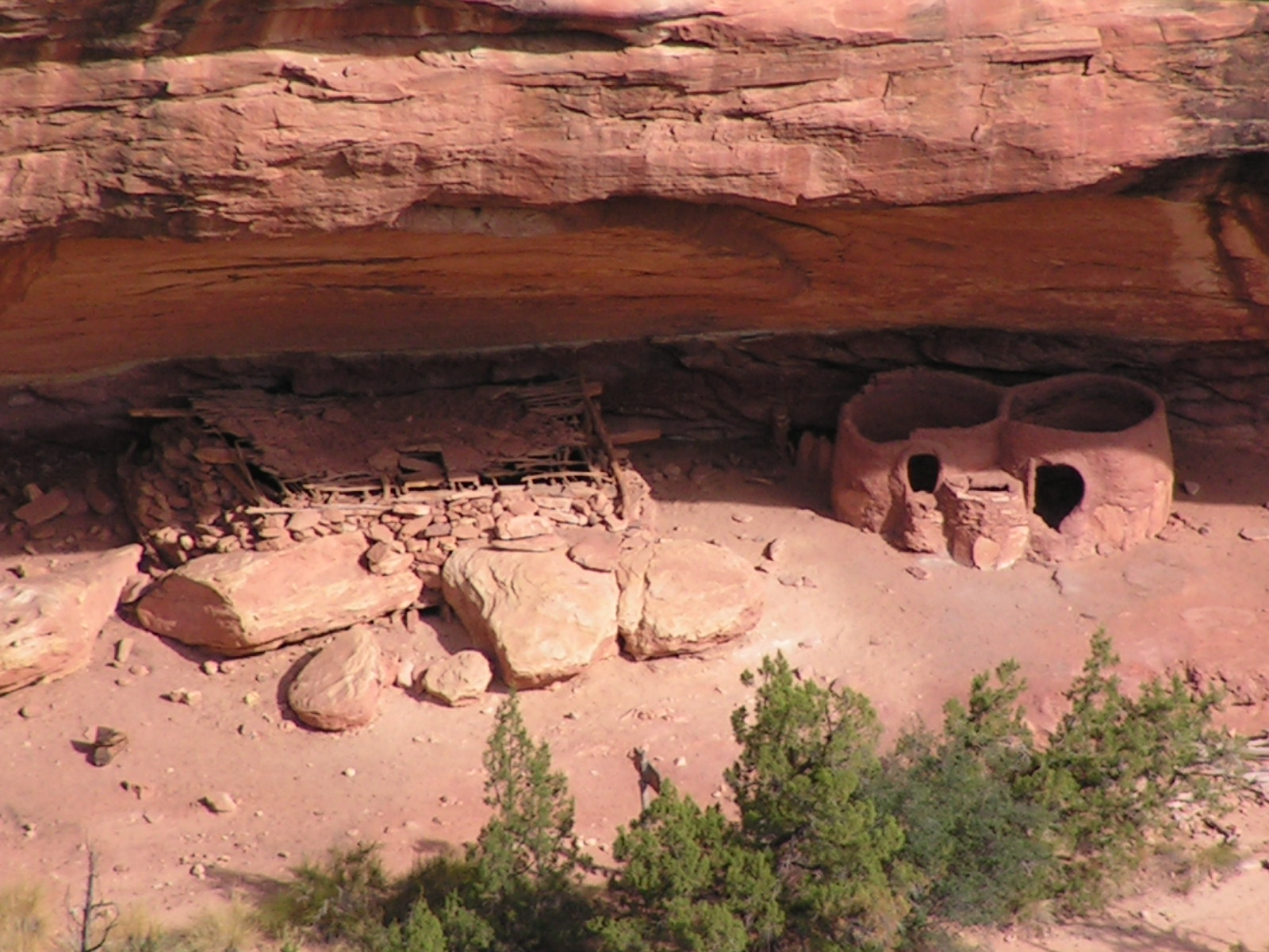 Horsecollar Ruin, Natural Bridges National Monument, Utah. An ancestral Puebloan ruin visible from an overlook off of Bridge View Drive.